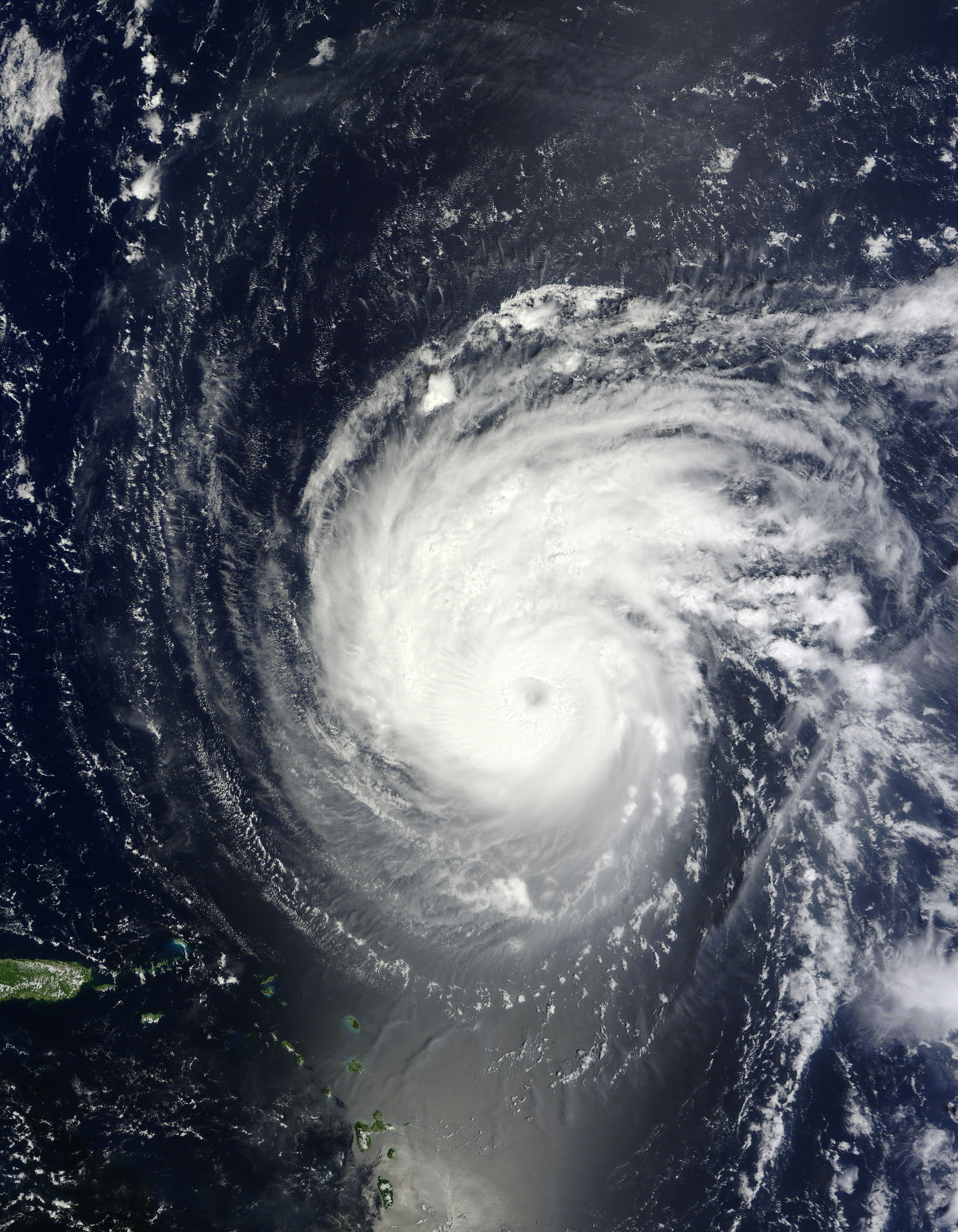 Hurricane Katia (12L) in the Atlantic Ocean. This is an un-cropped version.